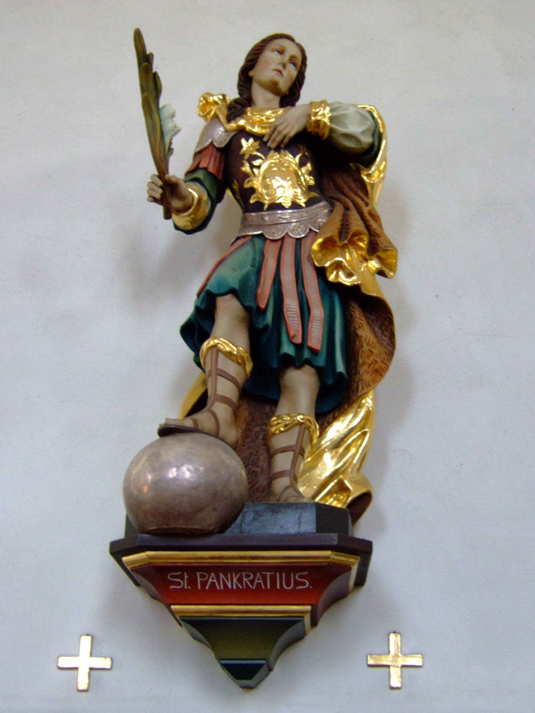 Saint Pancras (Pancratius), Church St. Pankratius, Degmarn, Germany